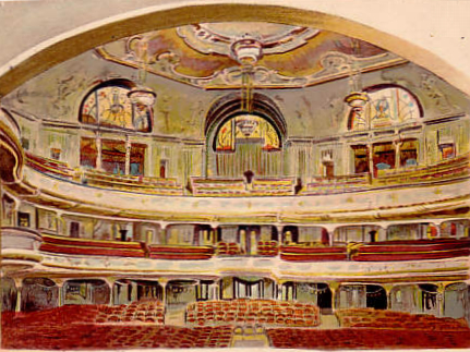 Düsseldorf Apollotheater, Detail einer Ansichtskarte aus dem Verlag Friedr. Wolfrum, Düsseldorf